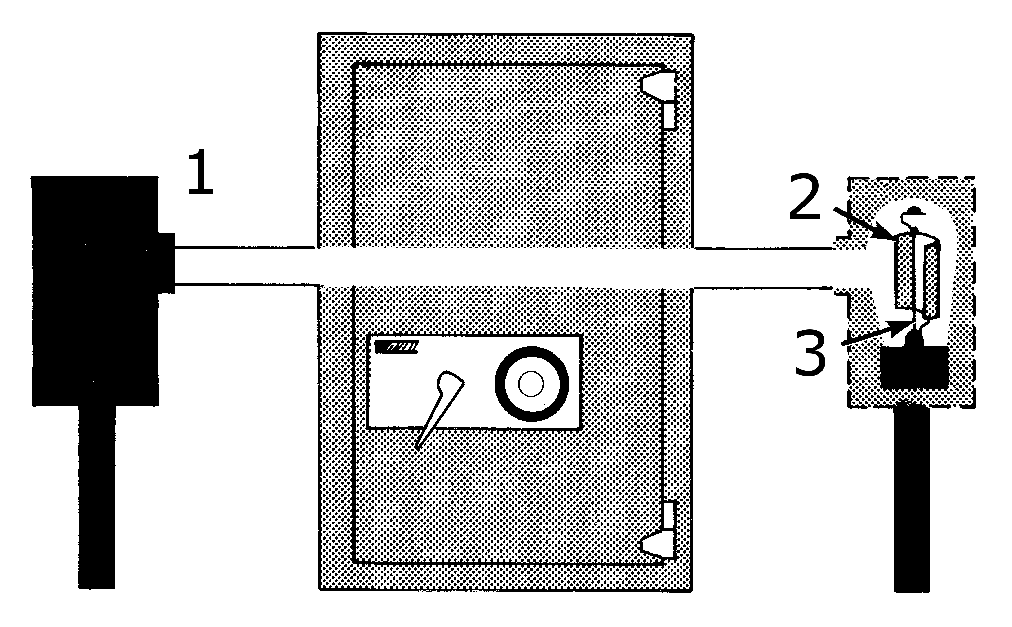 Line art drawing of a photoelectric cell. Light source Cathode Anode